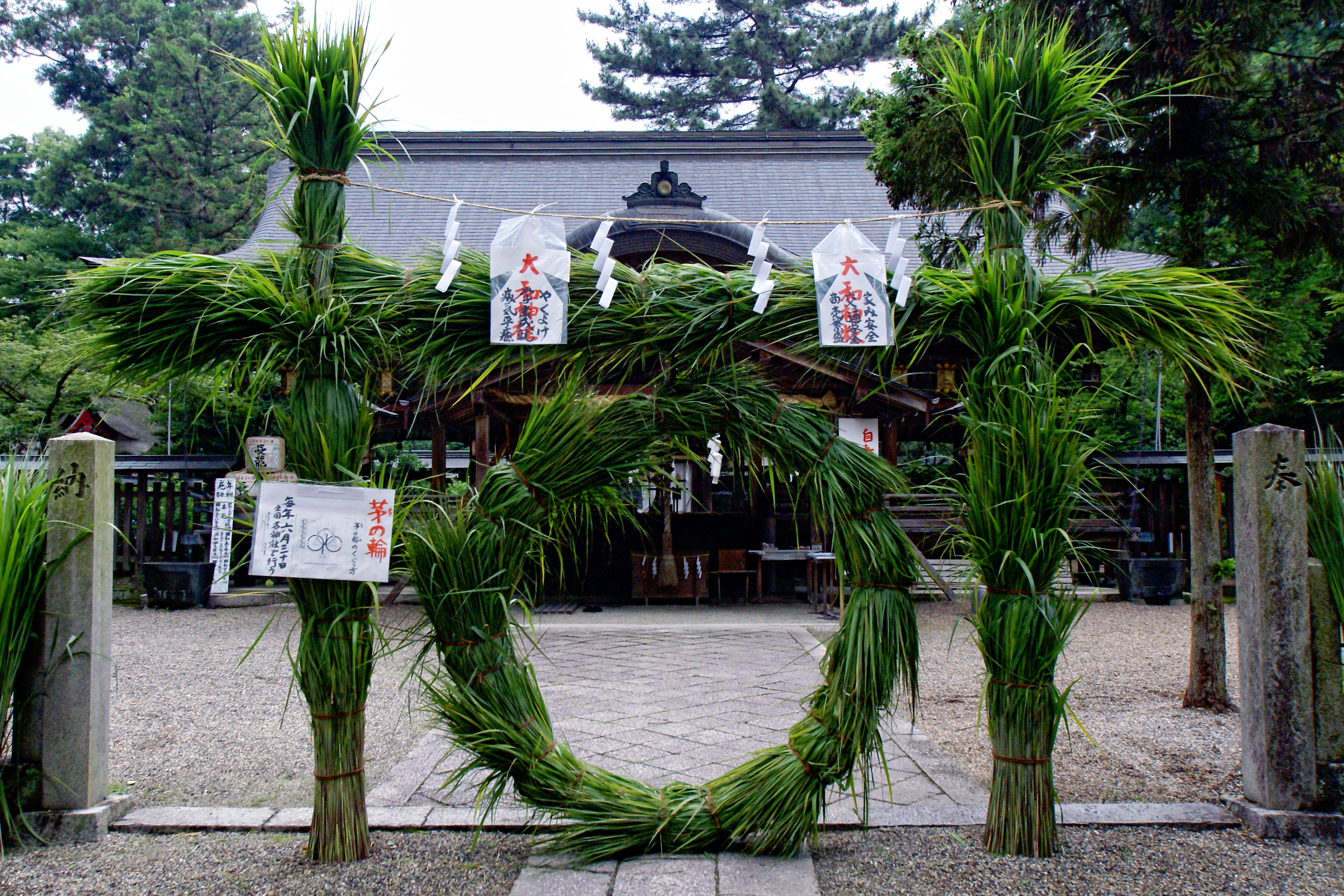 Ōyamato Shrine in Tenri, Nara prefecture, Japan